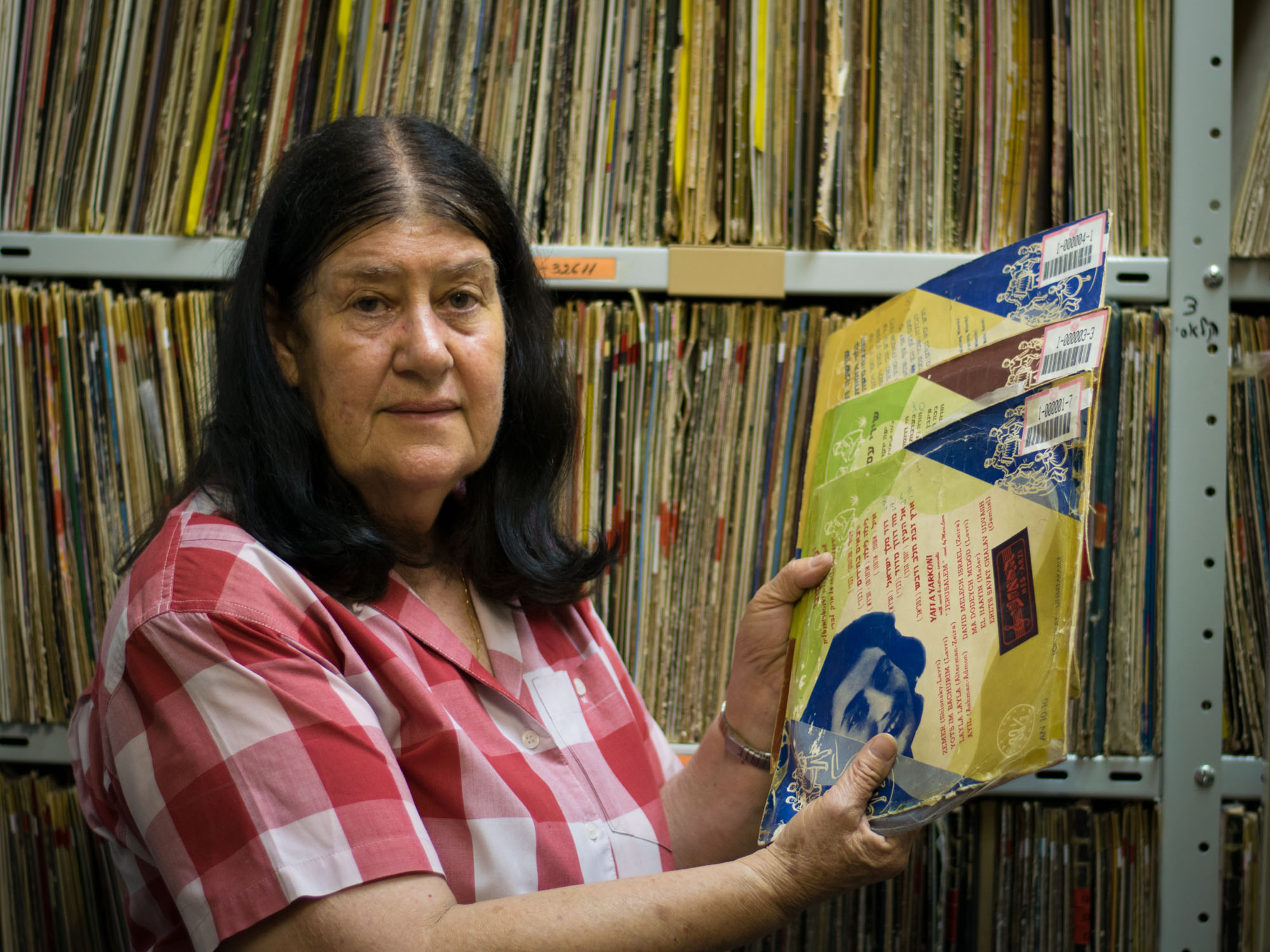 Ofra Helfman - Kol Israel